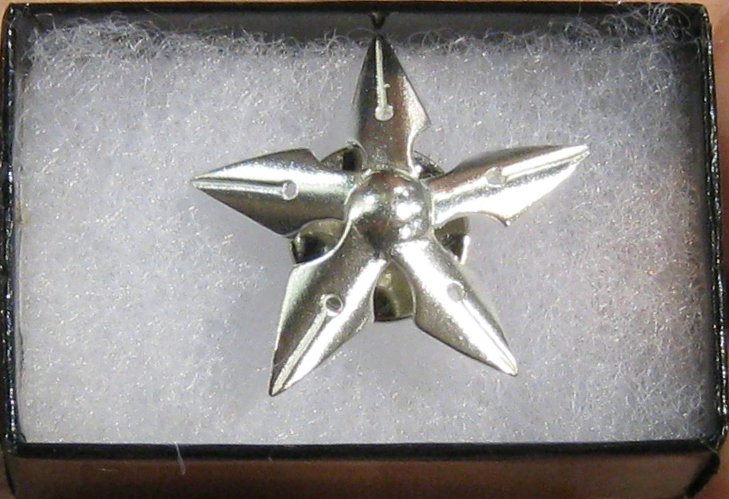 Pin given to all winners and nominees of the John W. Campbell Award for Best New Writer. Cropped version of original; pin is held in the hand of Jay Lake.